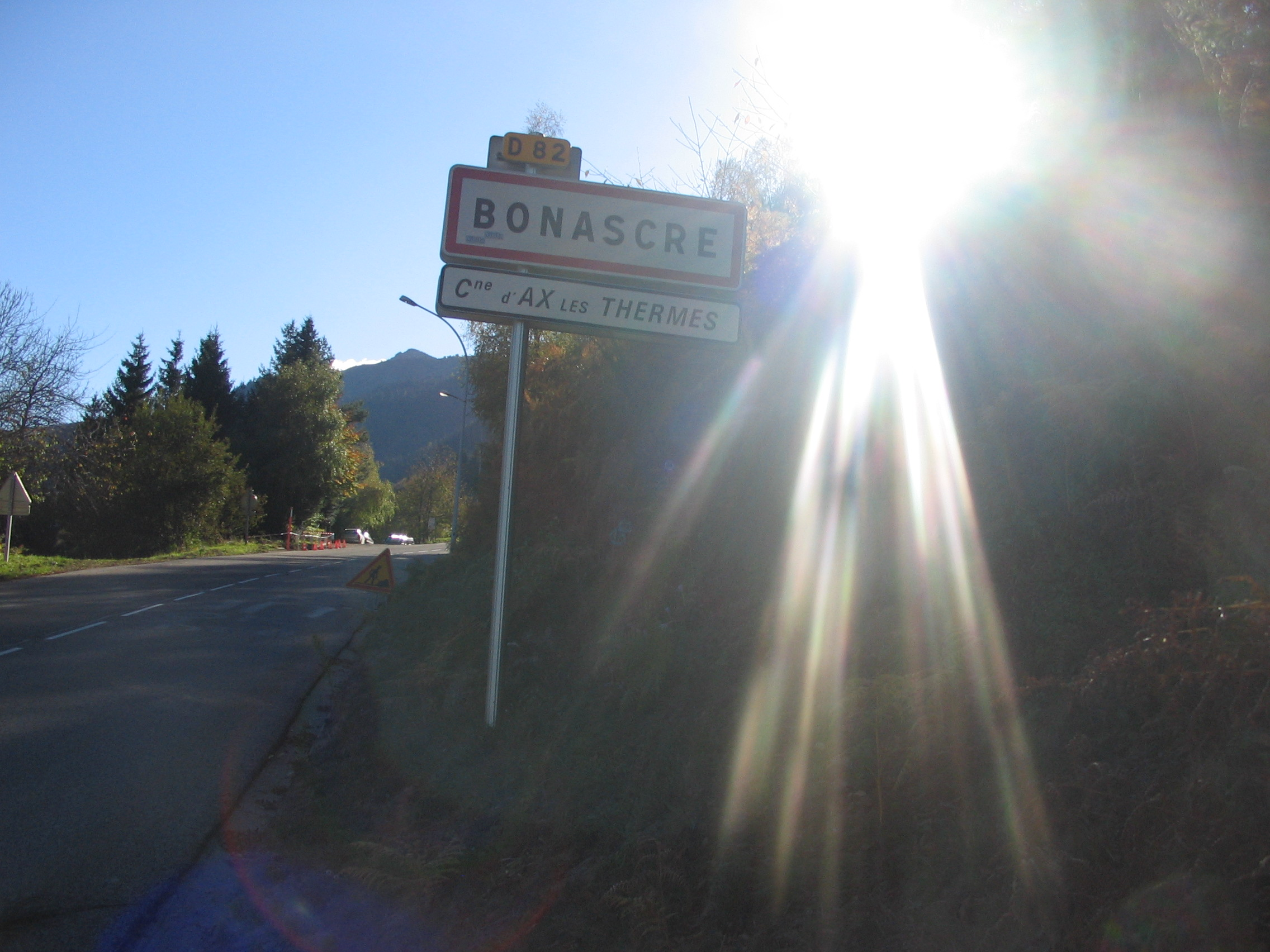 Plateau de Bonascre